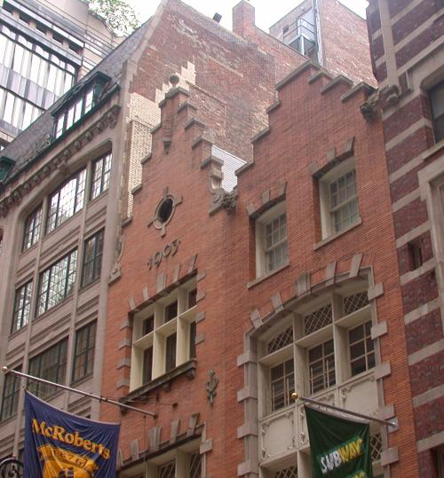 Dutch Revival buildings on Pearl Street in lower Manhattan